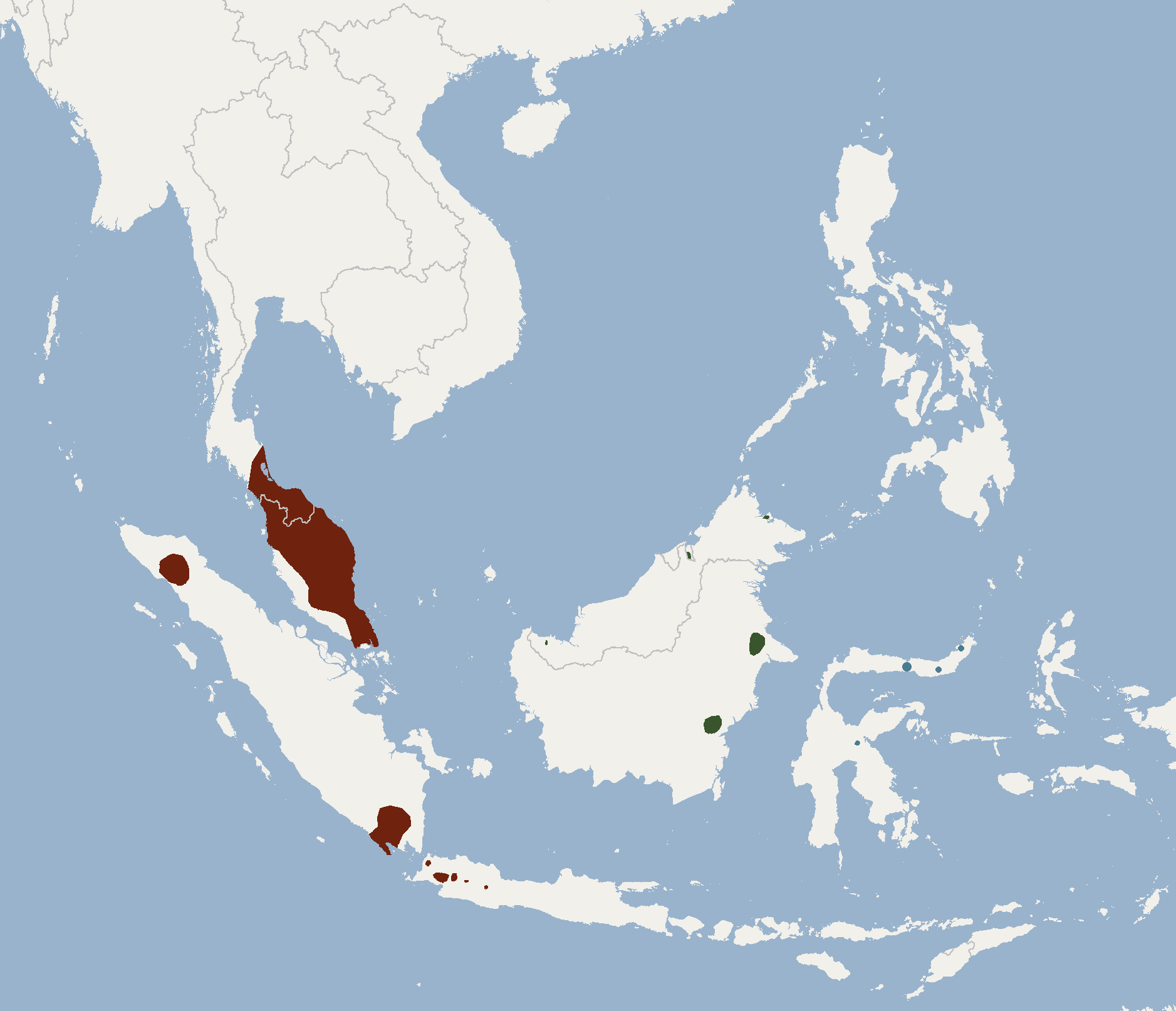 Geographical distribution of Chironax melanocephalus according to IUCNRedlist